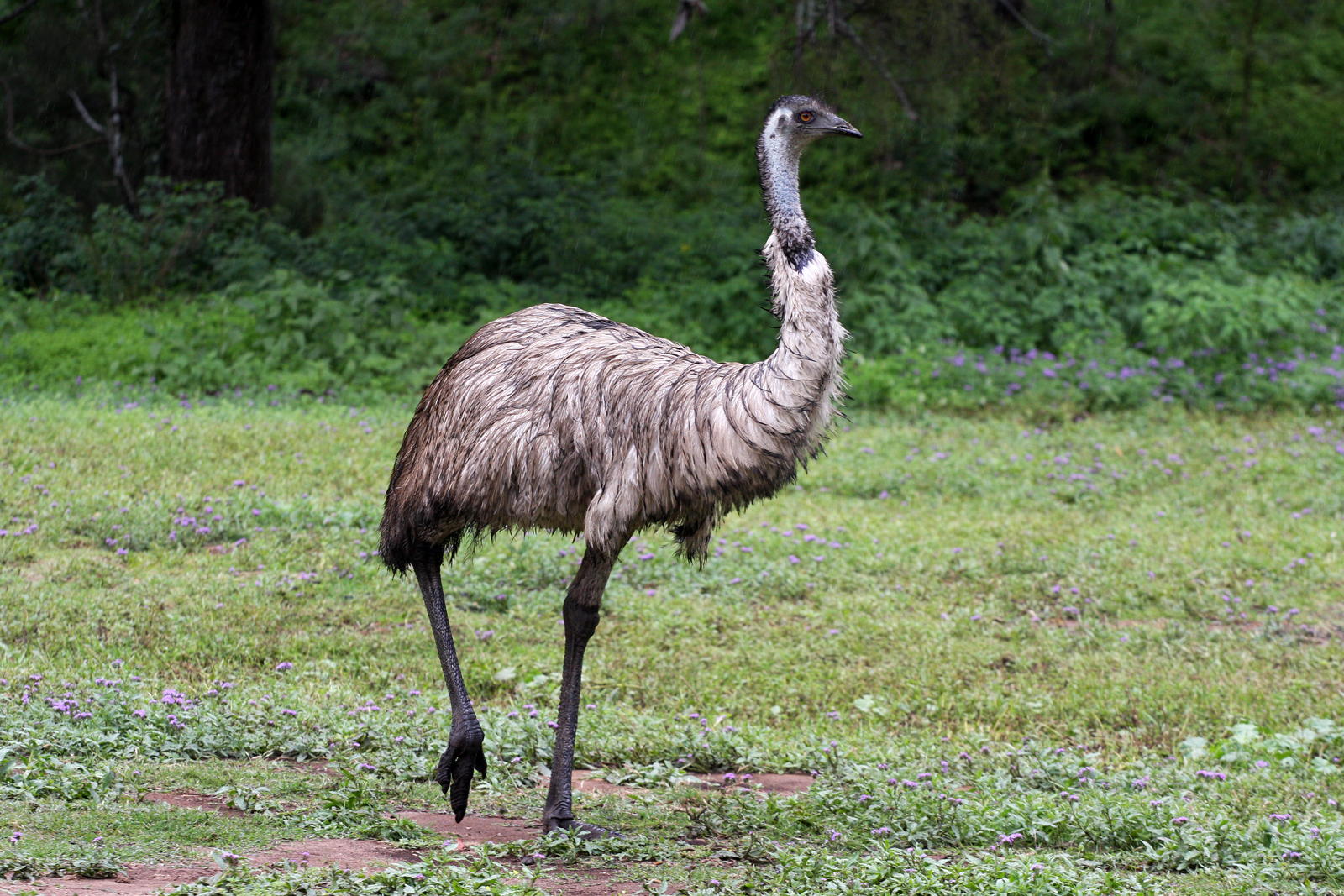 Emu in the wild